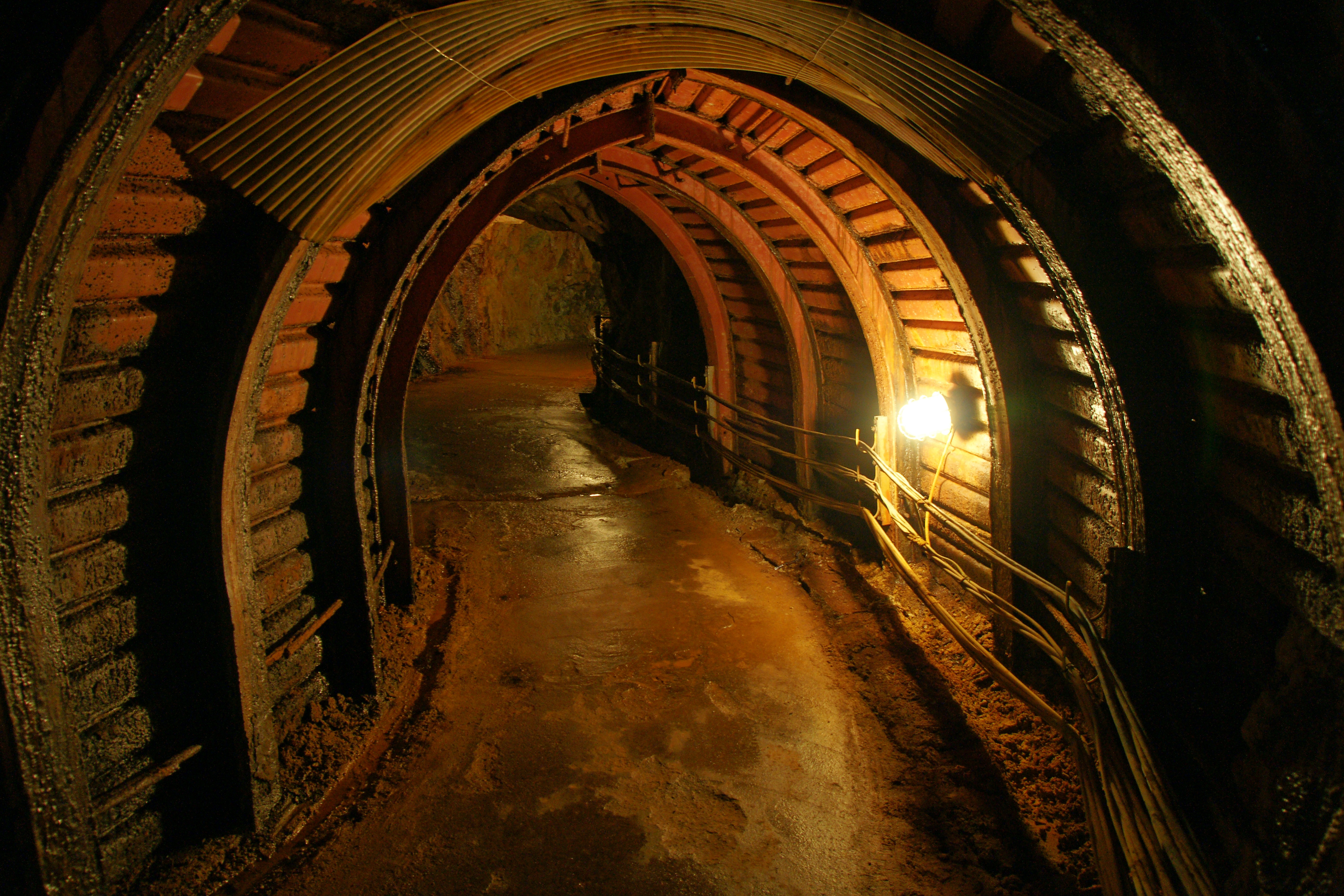 Ikuno Ginzan Silver Mine in Ikuno, Asago, Hyogo prefecture, Japan.